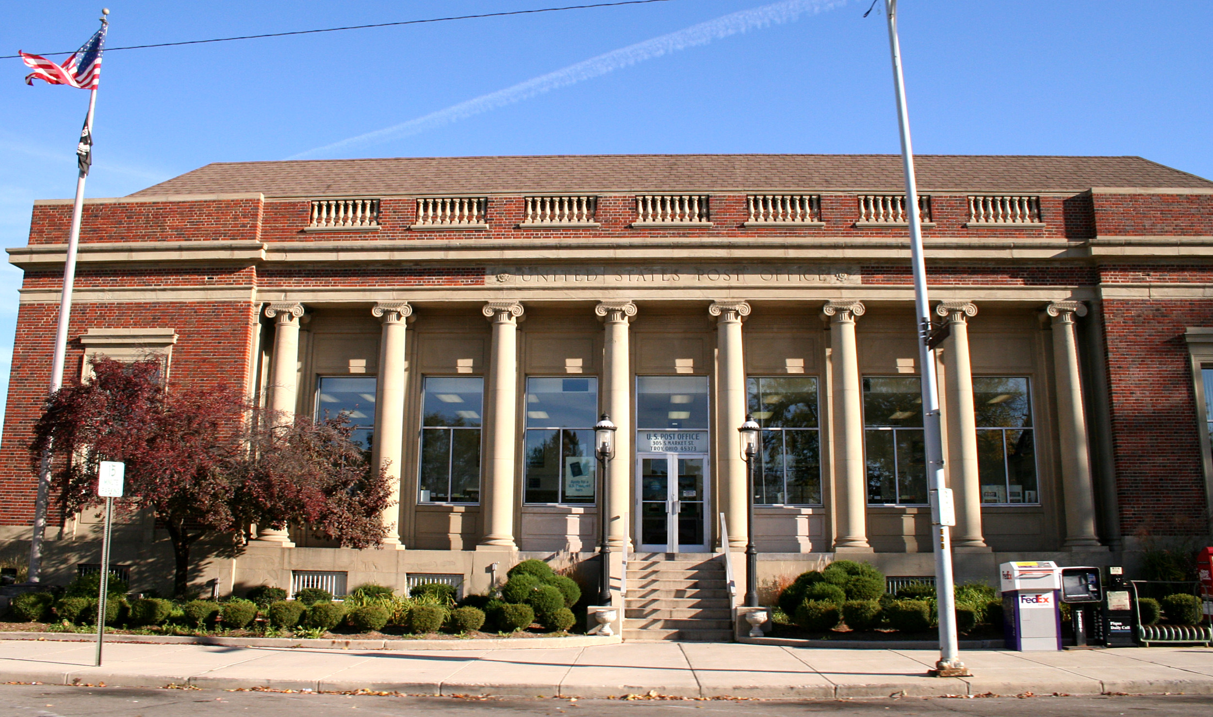 Post office in Troy, Ohio. Photo shot by Derek Jensen (Tysto), 2005-October-30